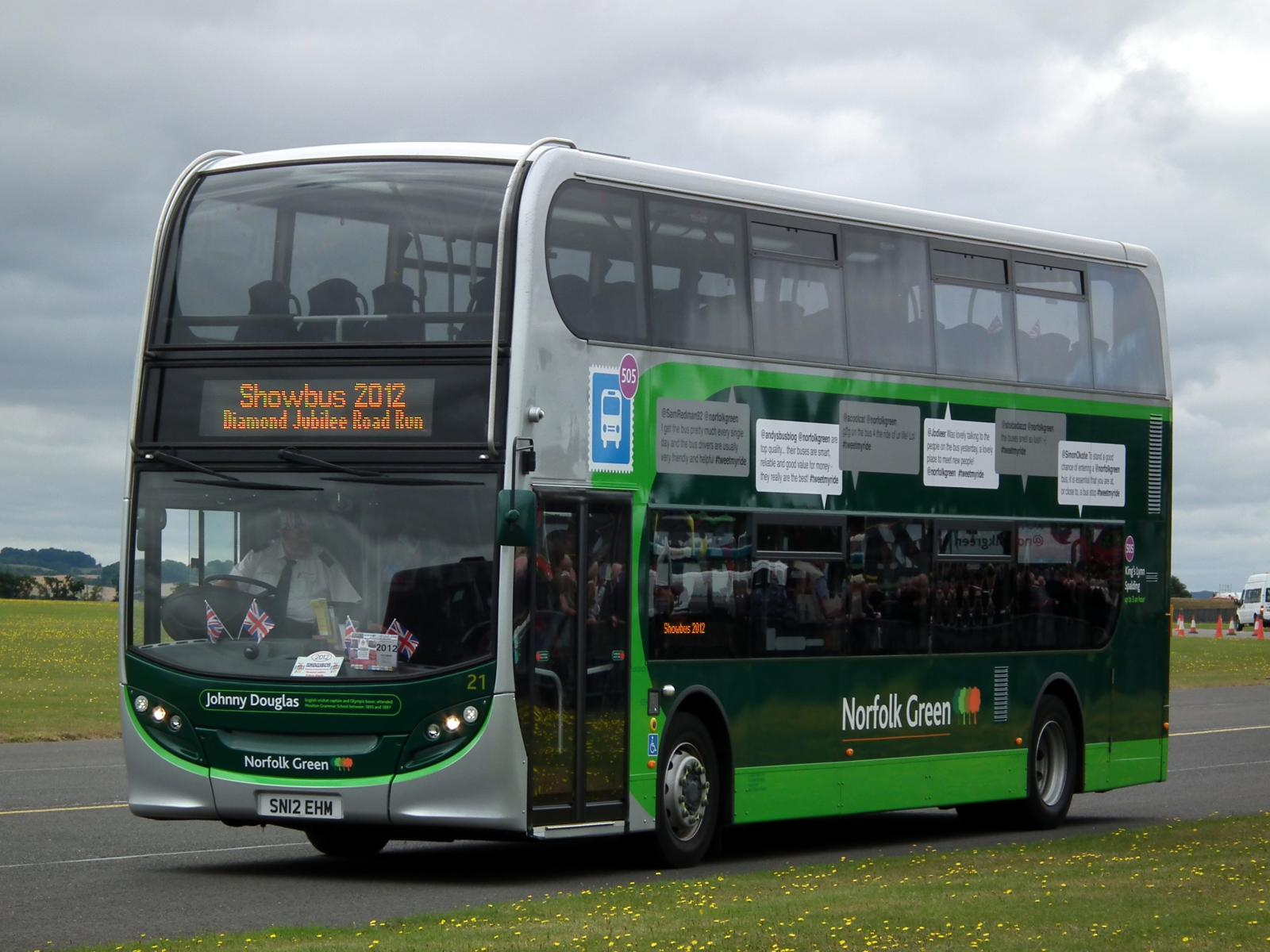 Norfolk Green 21 (SN12 EHM), a Alexander Dennis Enviro400, seen at Showbus 2012.